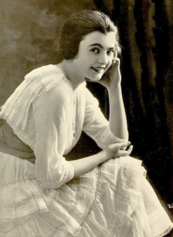 Olga grey, The Photo-Play Journal, December 1916